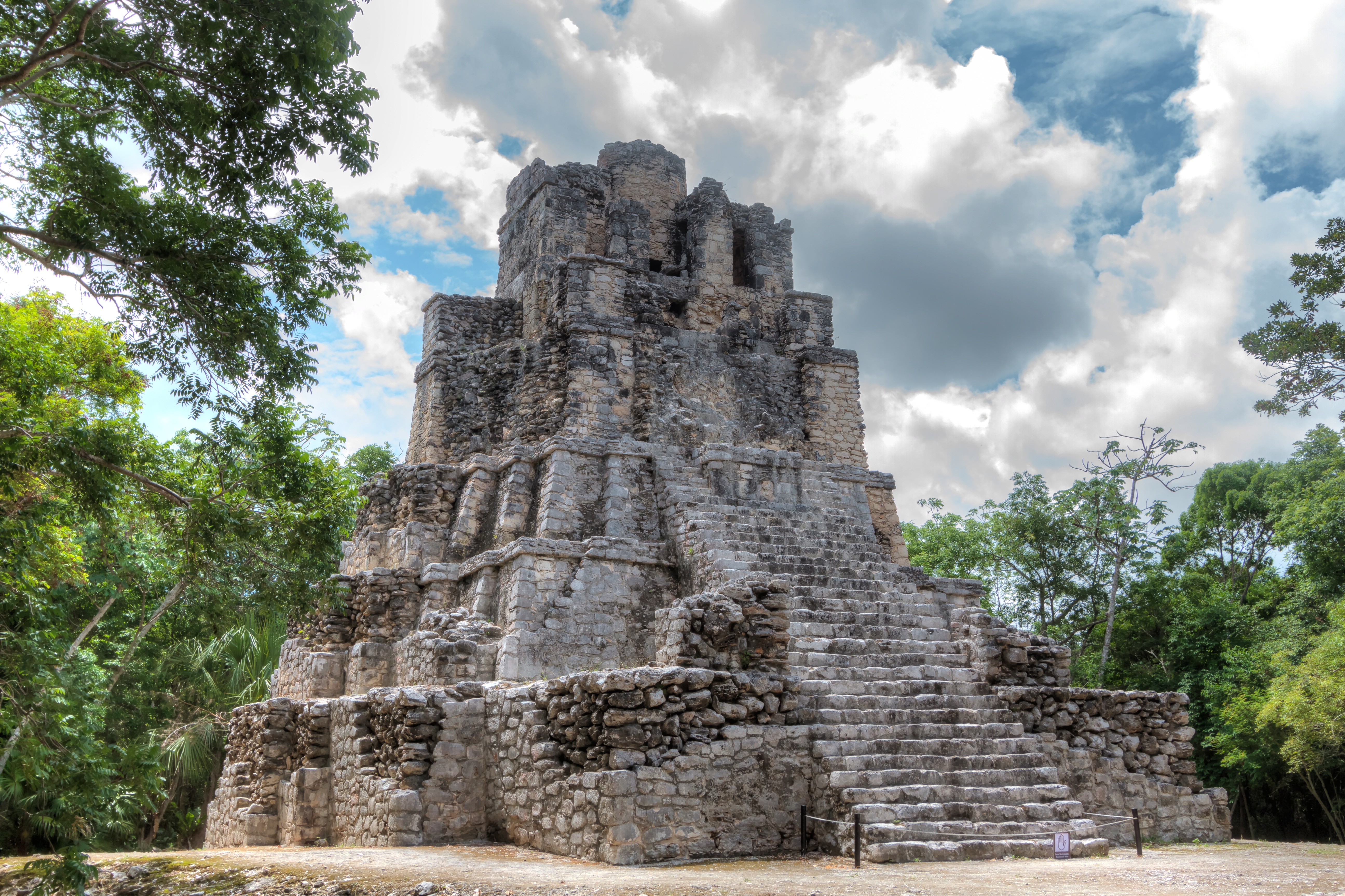 Ruins of Maya city of Muyil.